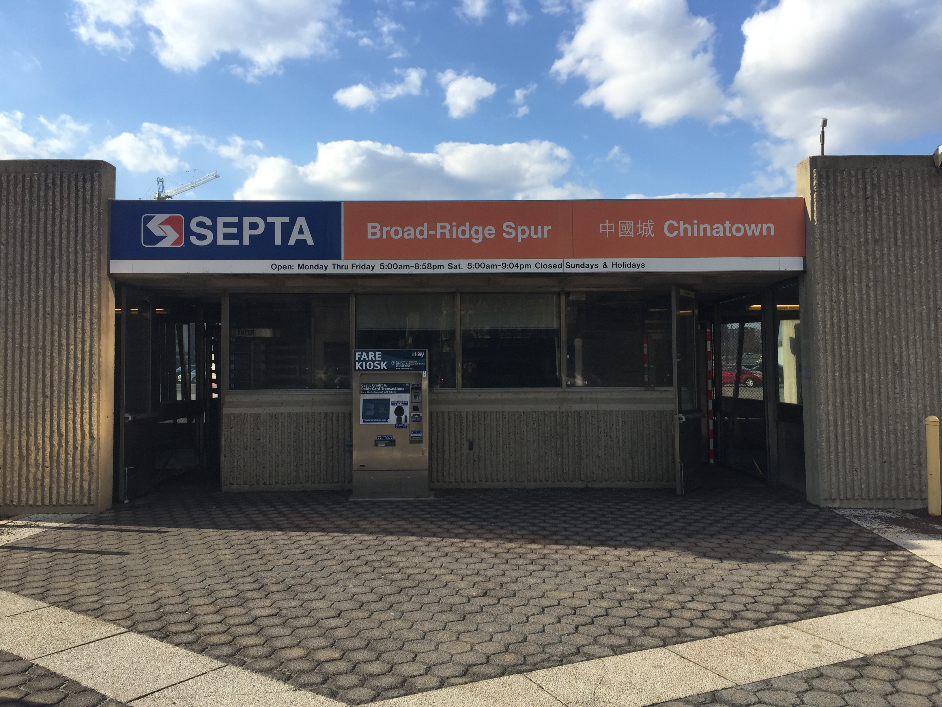 Septa Chinatown Station